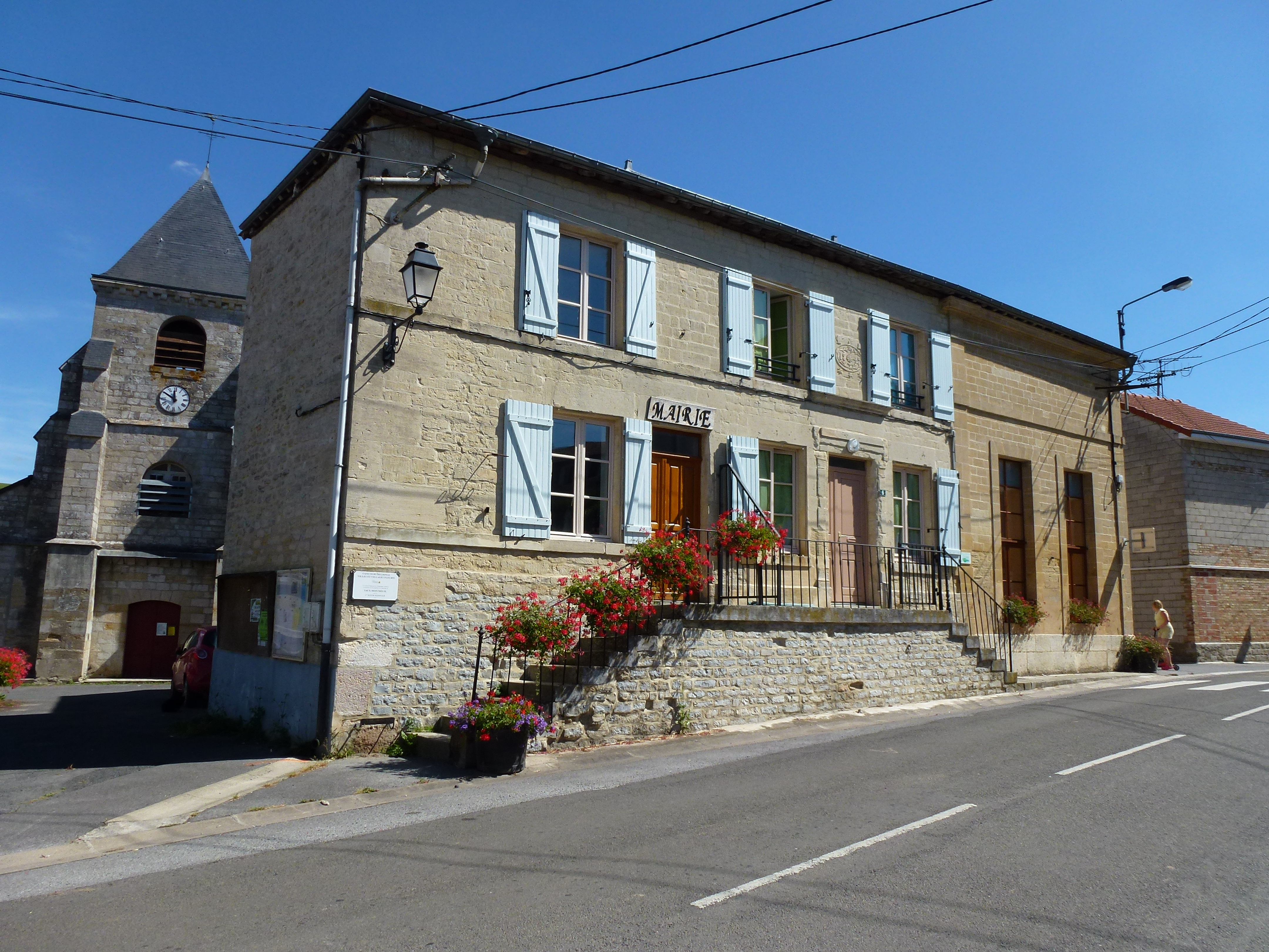 Vaux-Montreuil (Ardennes) mairie